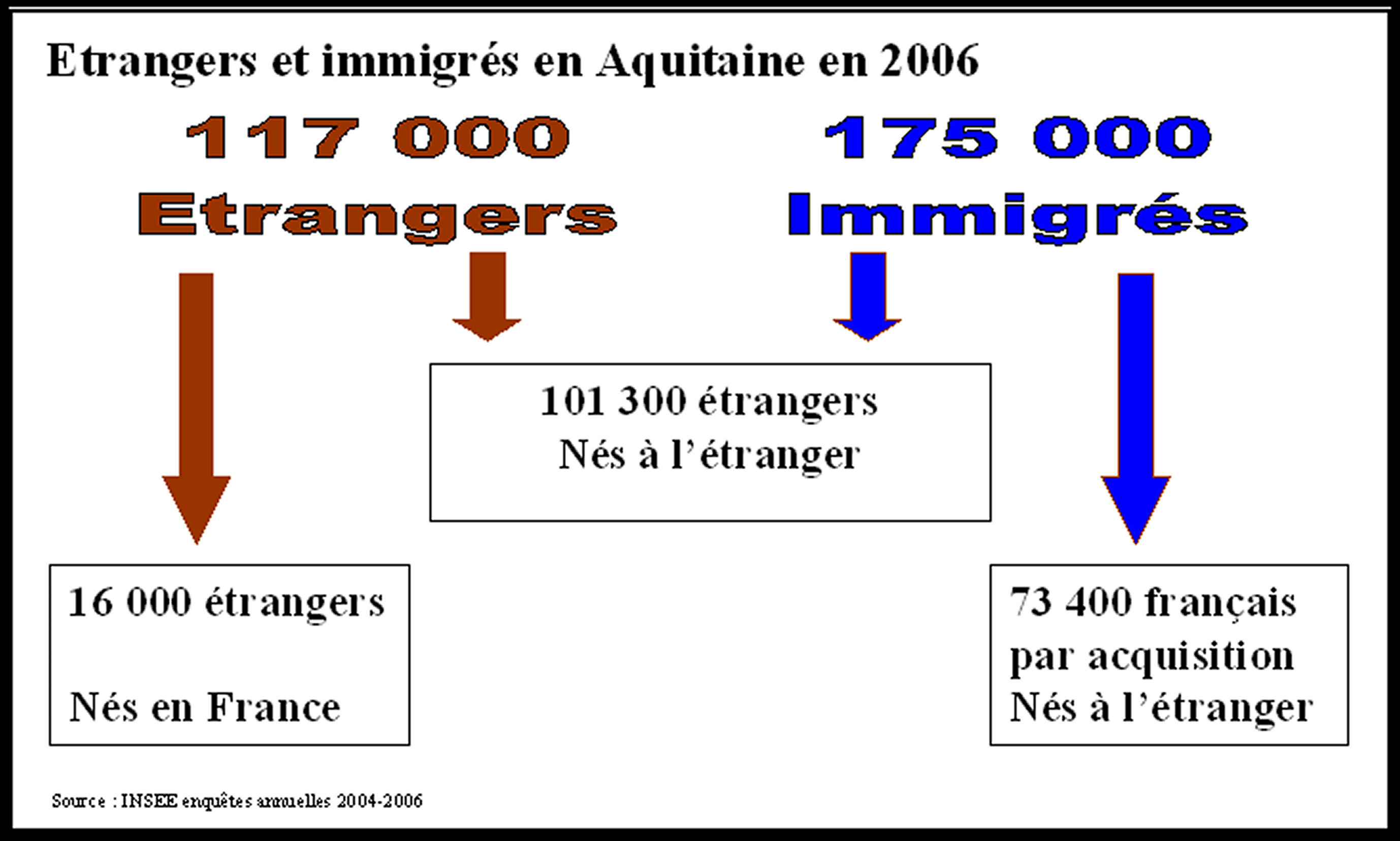 Foreigners and immigrants in Aquitaine in 2006